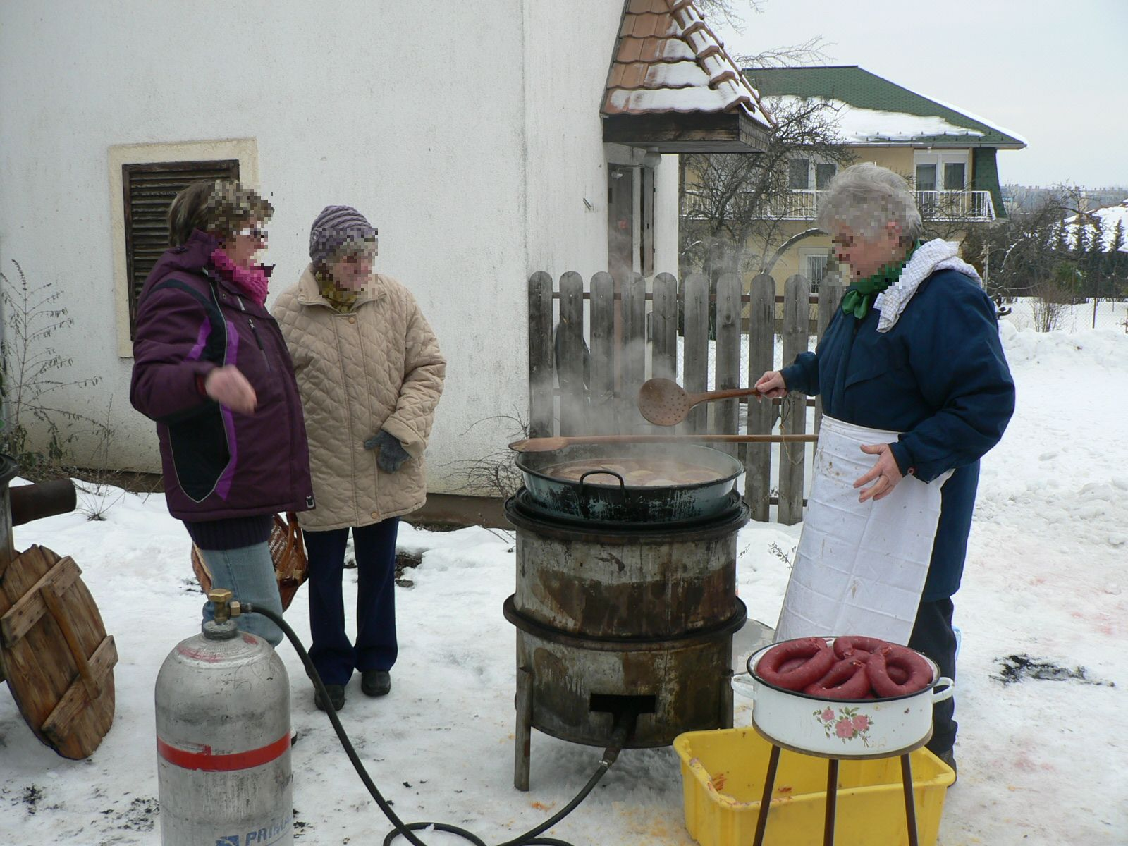 Disznótor a Heimatverein Egyesületnél